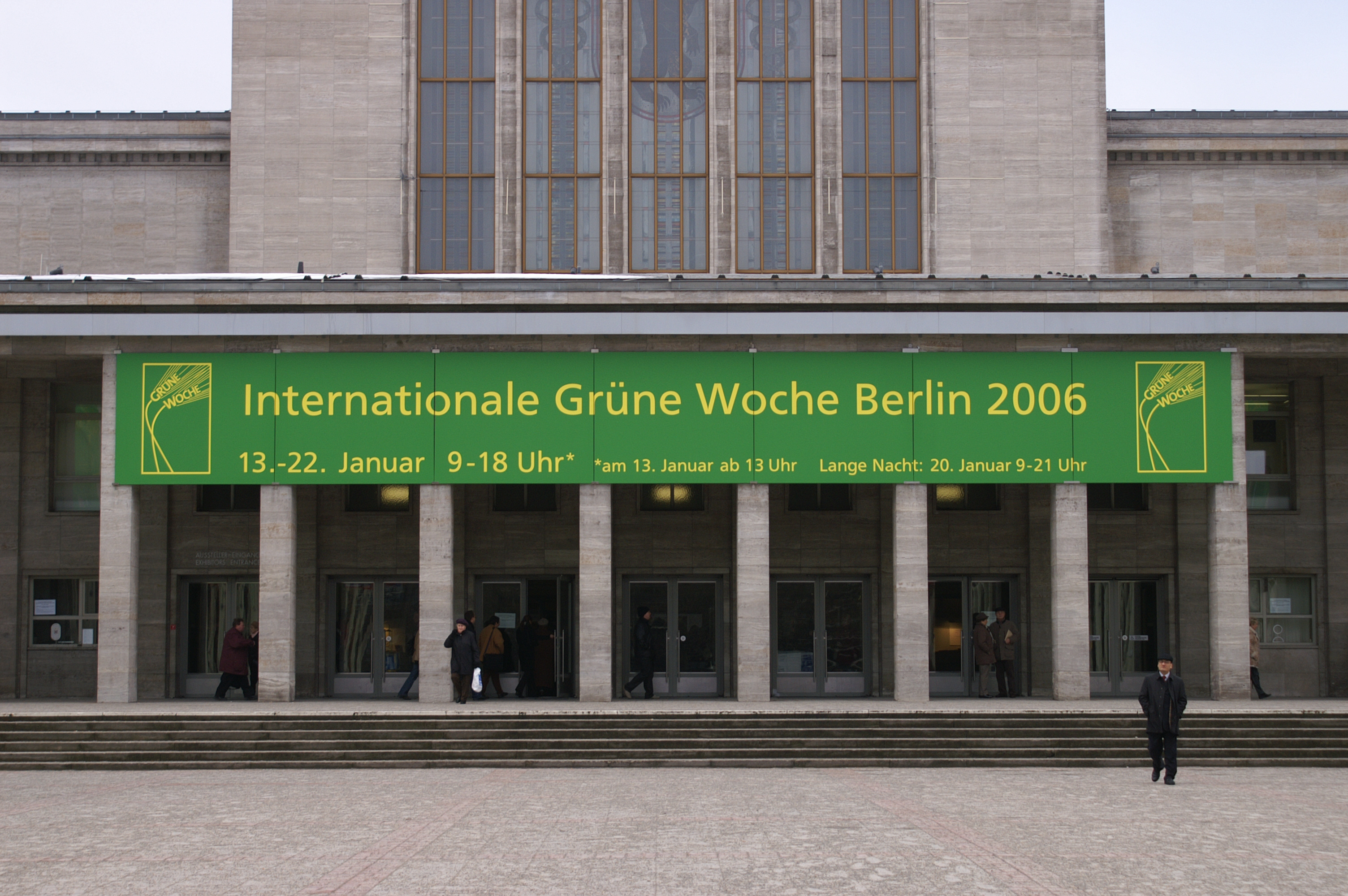 Entrance of the Berlin fair ground, advertisements for the fair "Grüne Woche" (German for Green week)